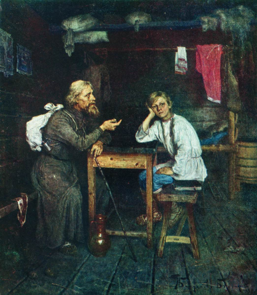 Future Monk